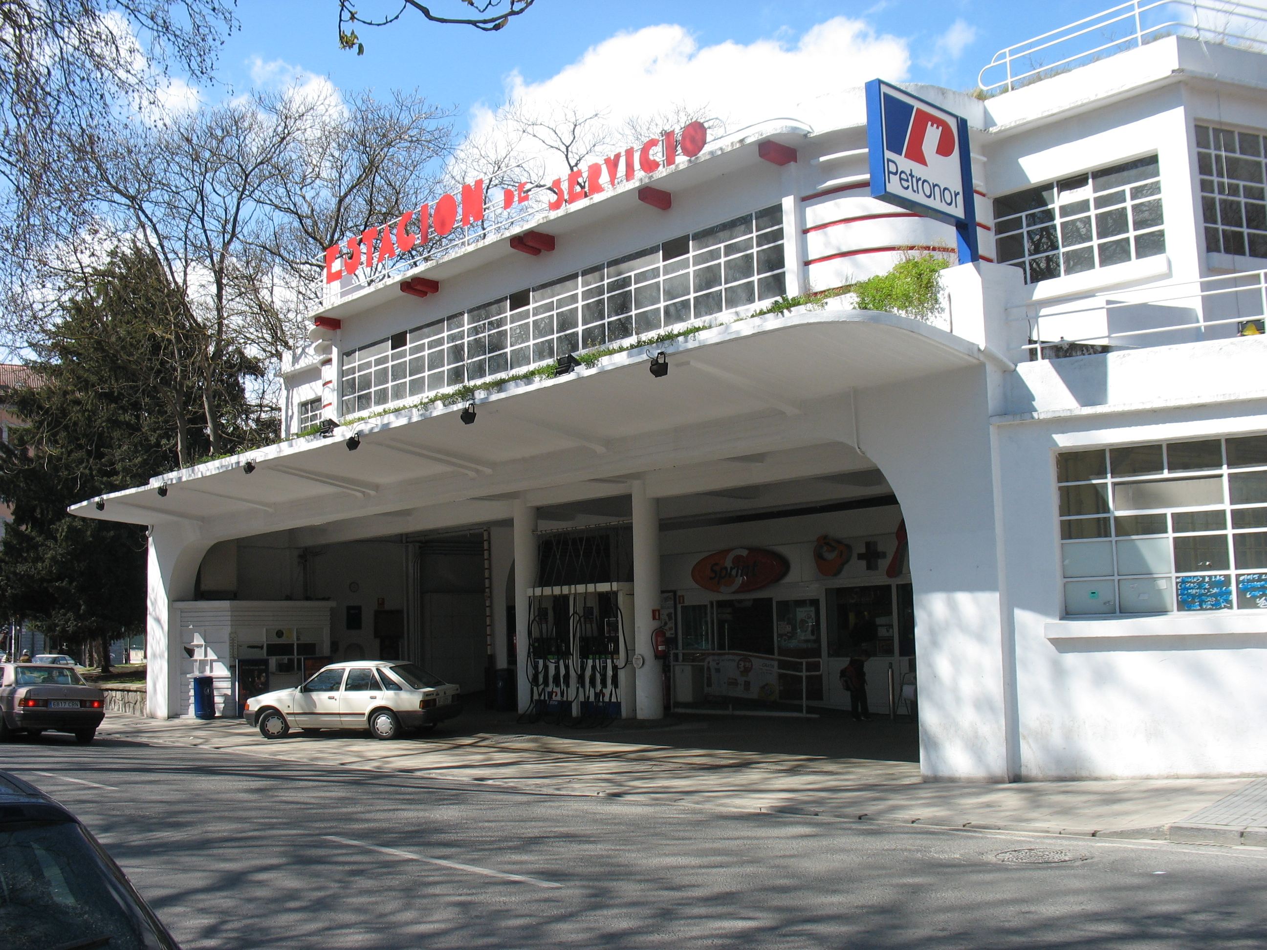 Art Deco Petrol Station in Vitoria, Spain